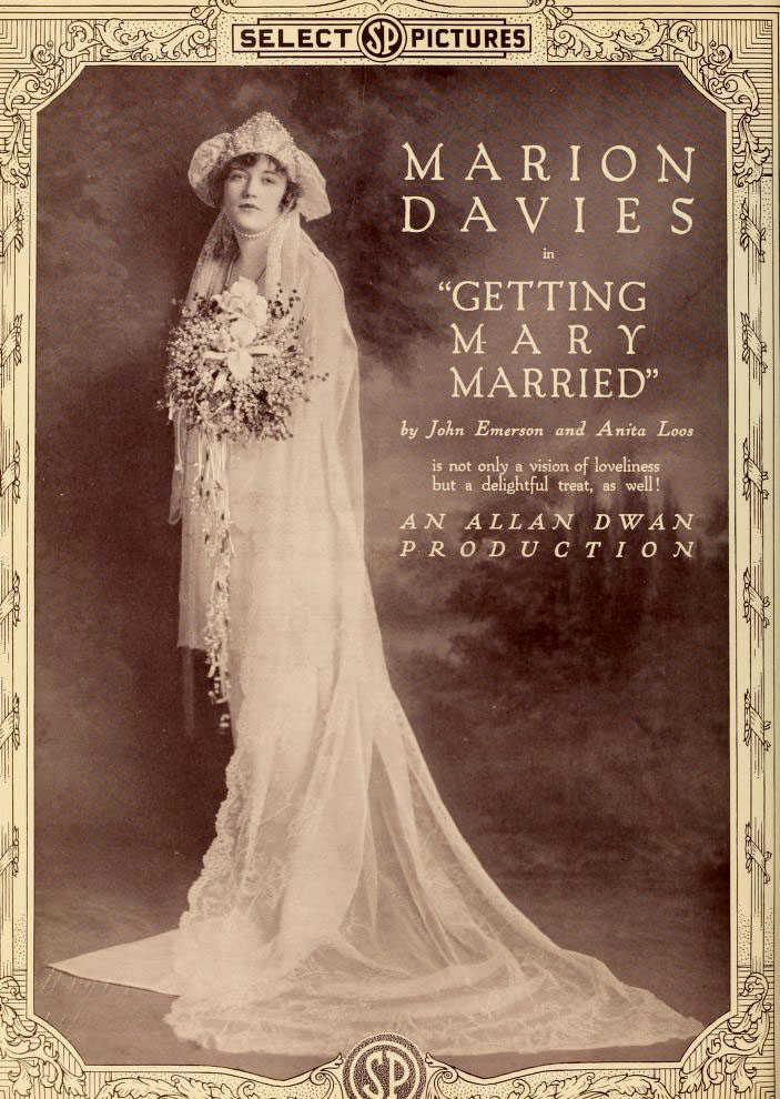 Advertisement for Getting Mary Married (1919) with Marion Davies. Moving Picture World, June 1919.